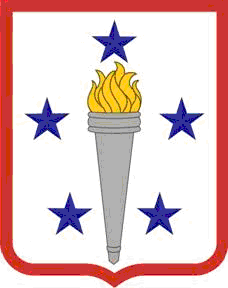 Sustainment Center of Excellence Shoulder Sleeve Insignia / Patch